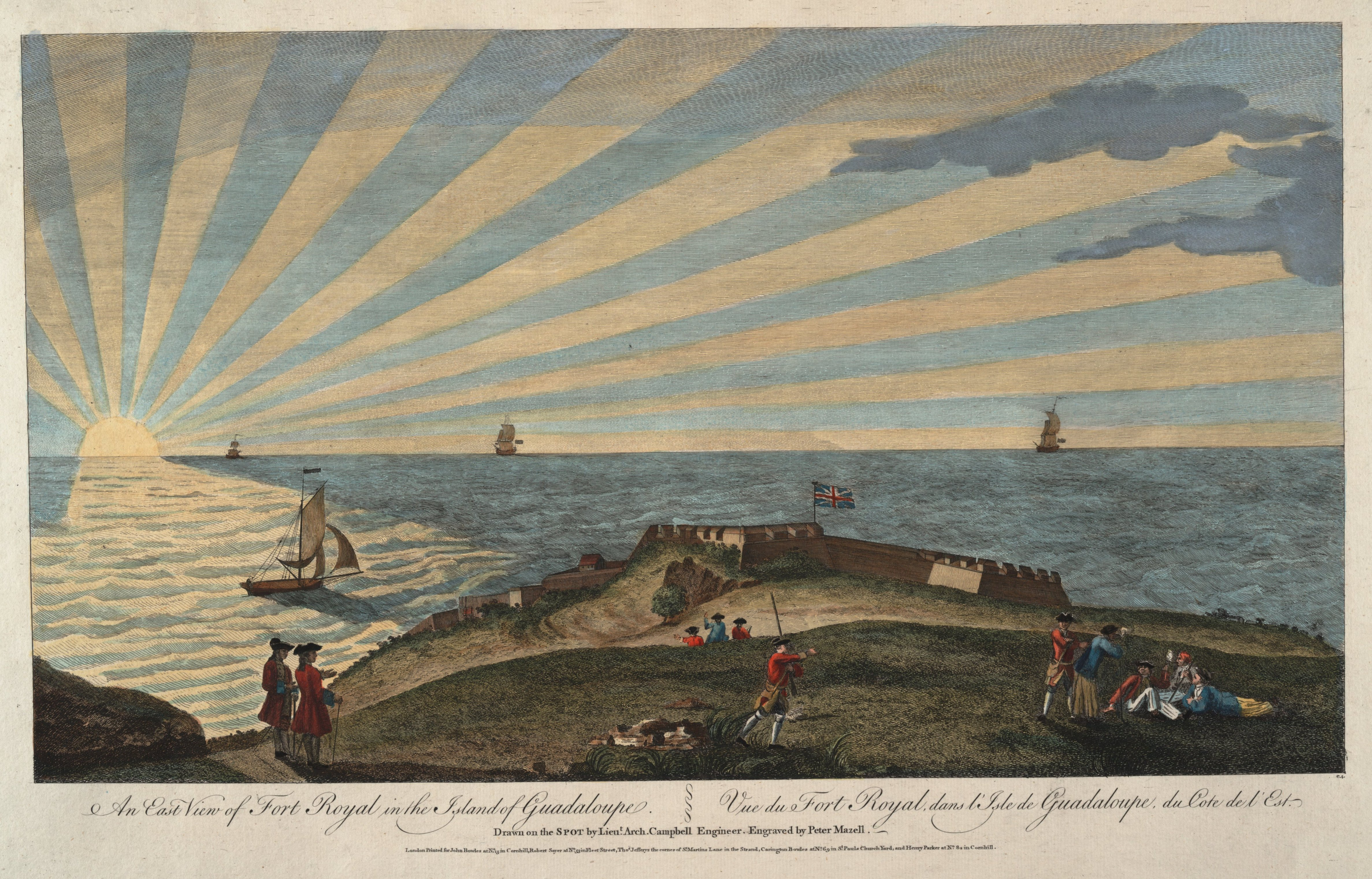 View of Fort Royal in Guadeloupe, in the Seven Years War, during the British occupation.